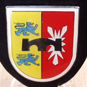 HQ Company 10th Engineers Brigade